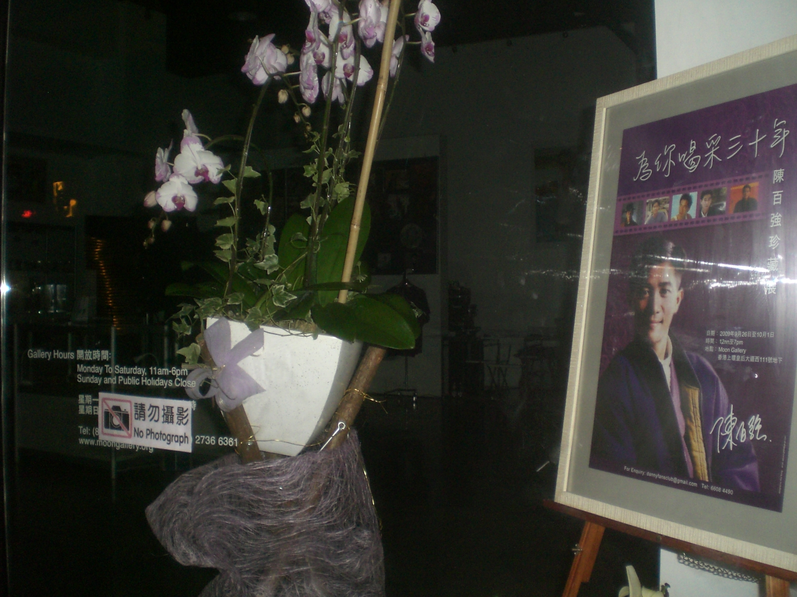 《為你喝采三十年 陳百強珍藏展》2009年9月26日至10月1日 - 地址: Moon Gallery HONG KONG 香港zh:上環zh:皇后大道西111號zh:華富商業中心地面1號鋪